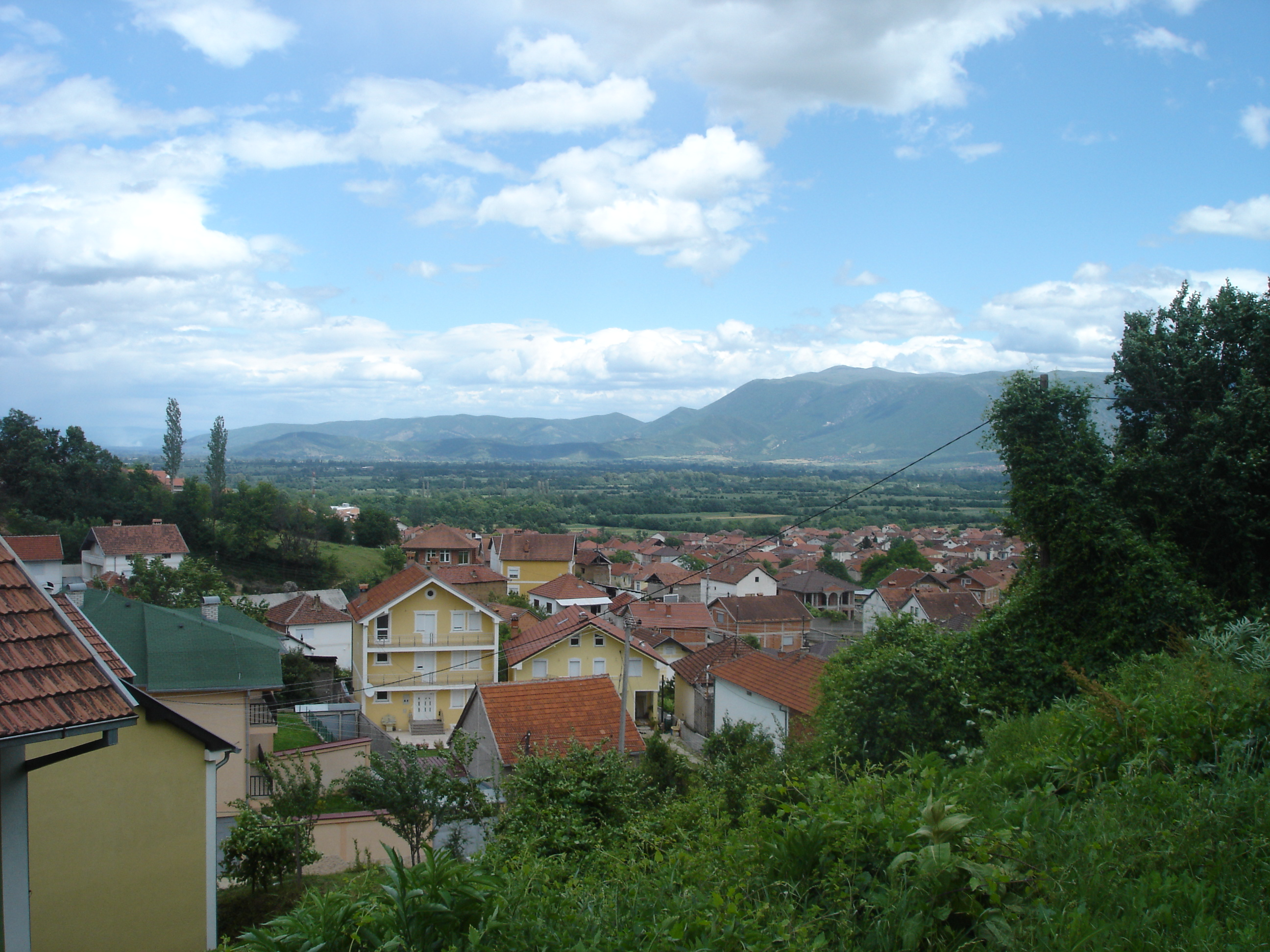 village of Debreshe and Polog valley, near Gostivar, Macedonia